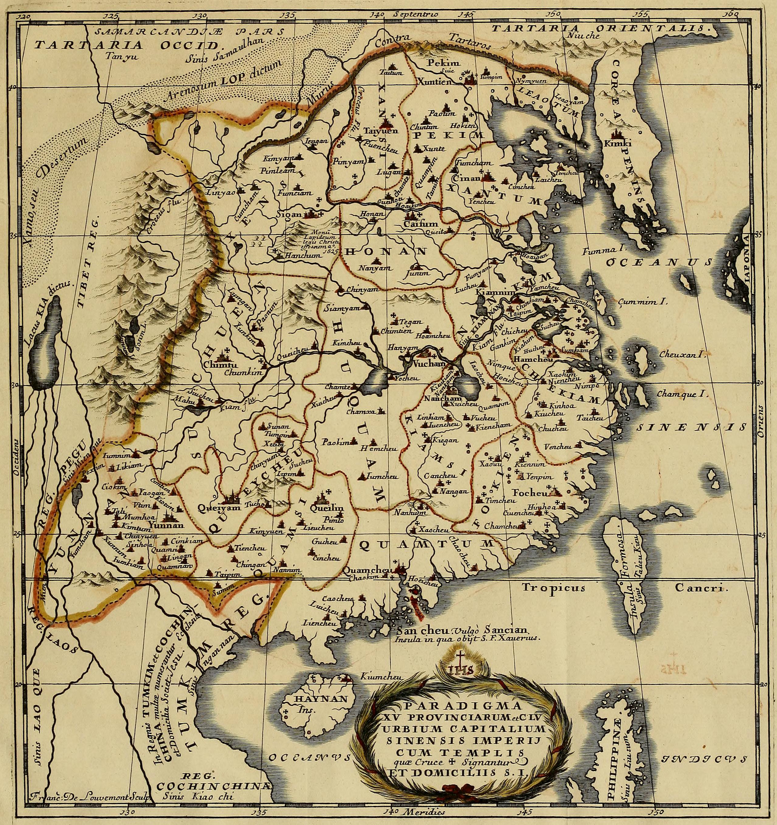 "A Map of the 15 Provinces and 155 Capital Cities of the Chinese Empire", from Confucius, the Philosopher of China, Bk III, between pages 104 & 105. For keys and translations, see the full page linked below.